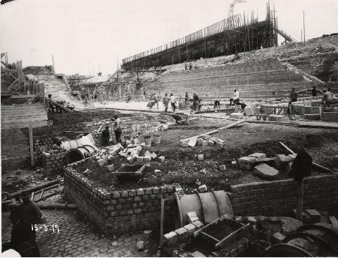 Öresundsvarvet shipyard in the Swedish, Scanian town, Landskrona.